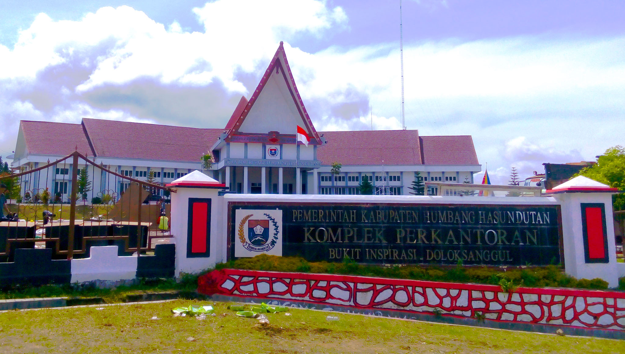 Office of Humbang Hasundutan, Sumatra Utara